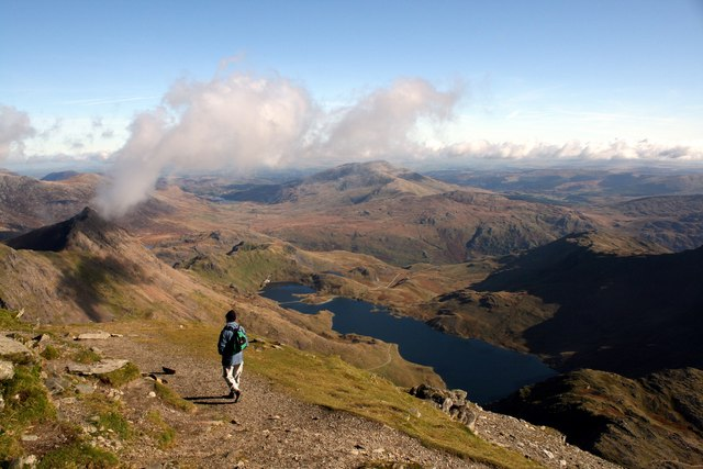 View from Snowdon Looking south east towards Llyn Llydaw and beyond.